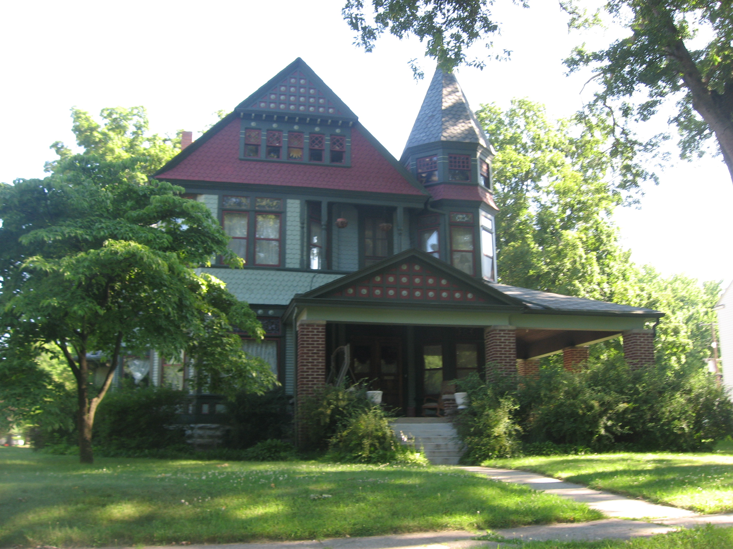 Front of the Lyman M. Brackett House, located at 328 W. Ninth Street in Rochester, Indiana, United States. Built in 1884, it is listed on the National Register of Historic Places, and it is part of the locally-designated Rochester Westside Historic District.